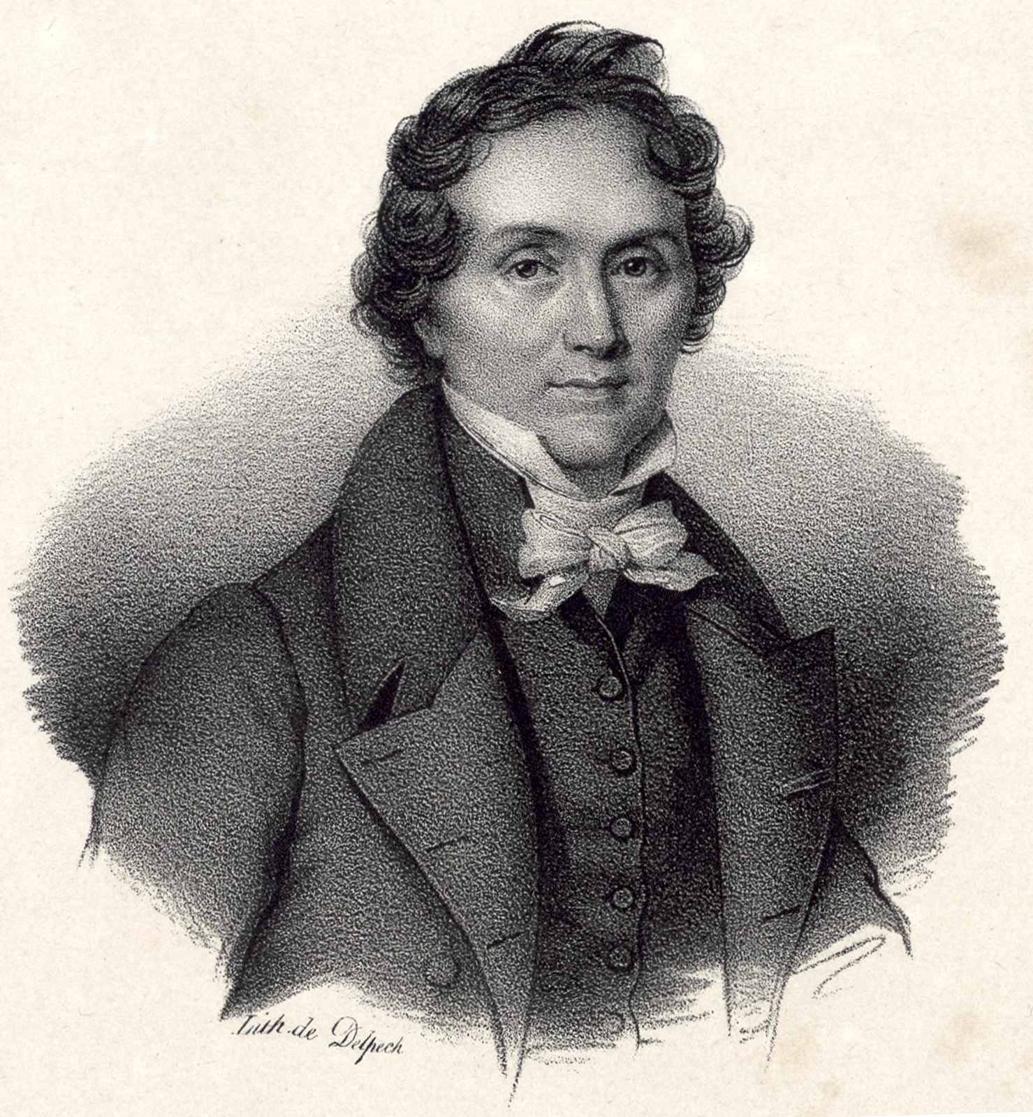 Lithograph of French poet and dramatist Casimir Delavigne by François-Séraphin Delpech.